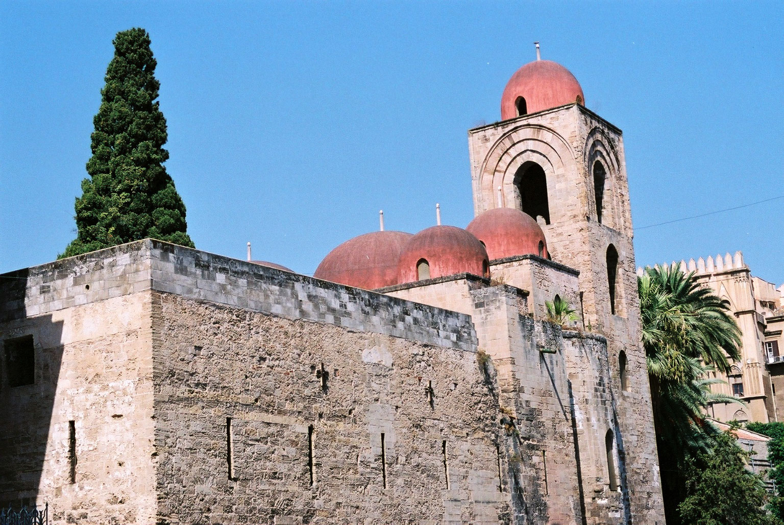 The refectory and the cupolas in Arabian style